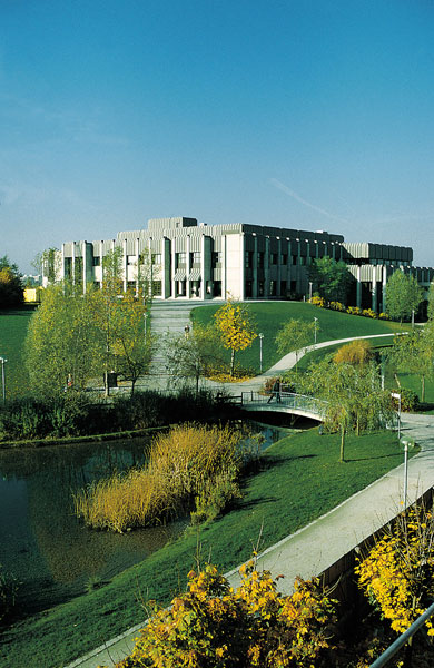 Library, University Augsburg